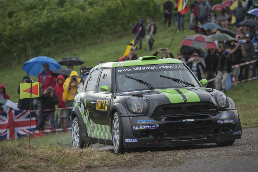 Rally Germany 2012 ADAC Rallye Deutschland,Christopher Atkinson,Mini John Cooper Works WRC,Motorsport,Rally,Rallye,Rallye Deutschland,SS7,Stein & Wein 1,Stephane Prevot,WP7,WRC,WRC Team Mini Portugal